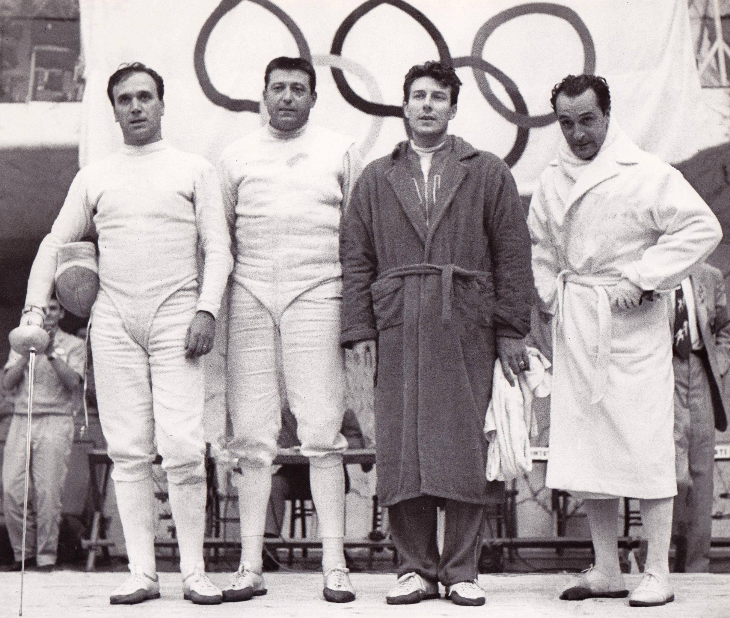 Italian men's épée team at the 1960 Olympics: Carlo Pavesi, Giuseppe Delfino, Alberto Pellegrino, Edoardo Mangiarotti